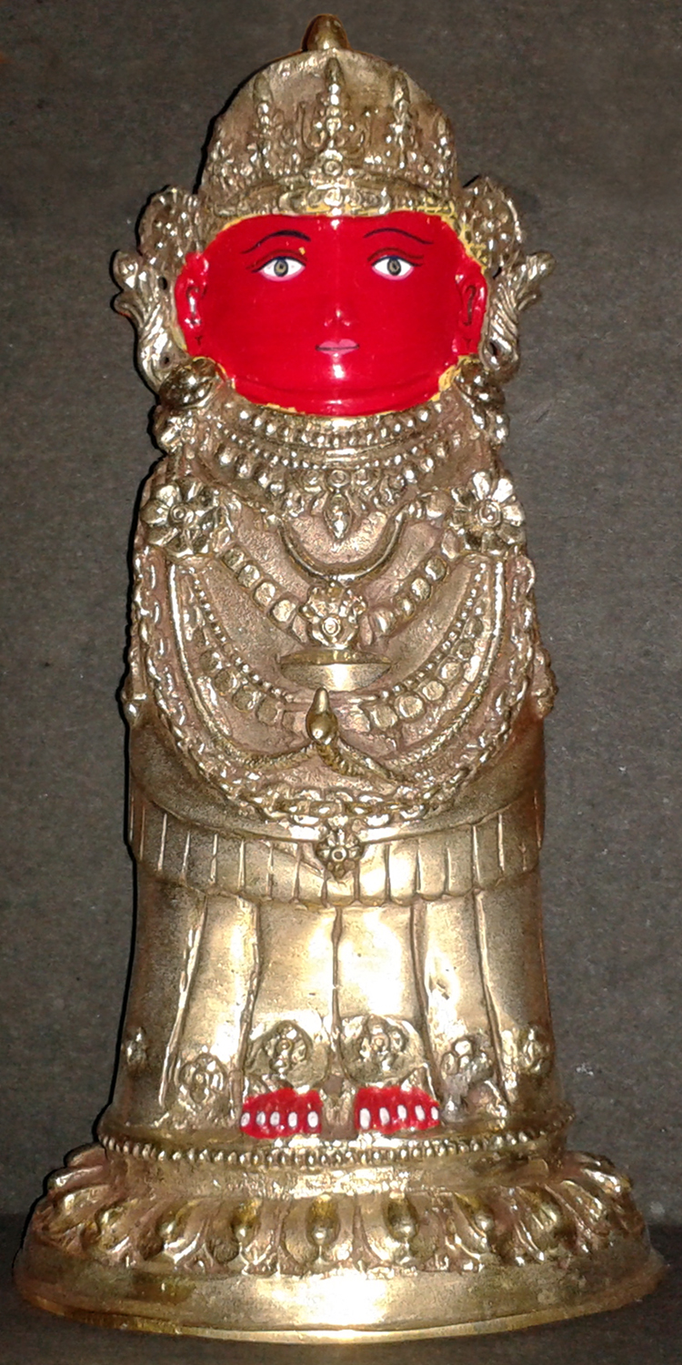 Miniature statue of Buddhist deity Bunga Dyah, the Bodhisattva of Compassion worshipped in Kathmandu, Nepal.